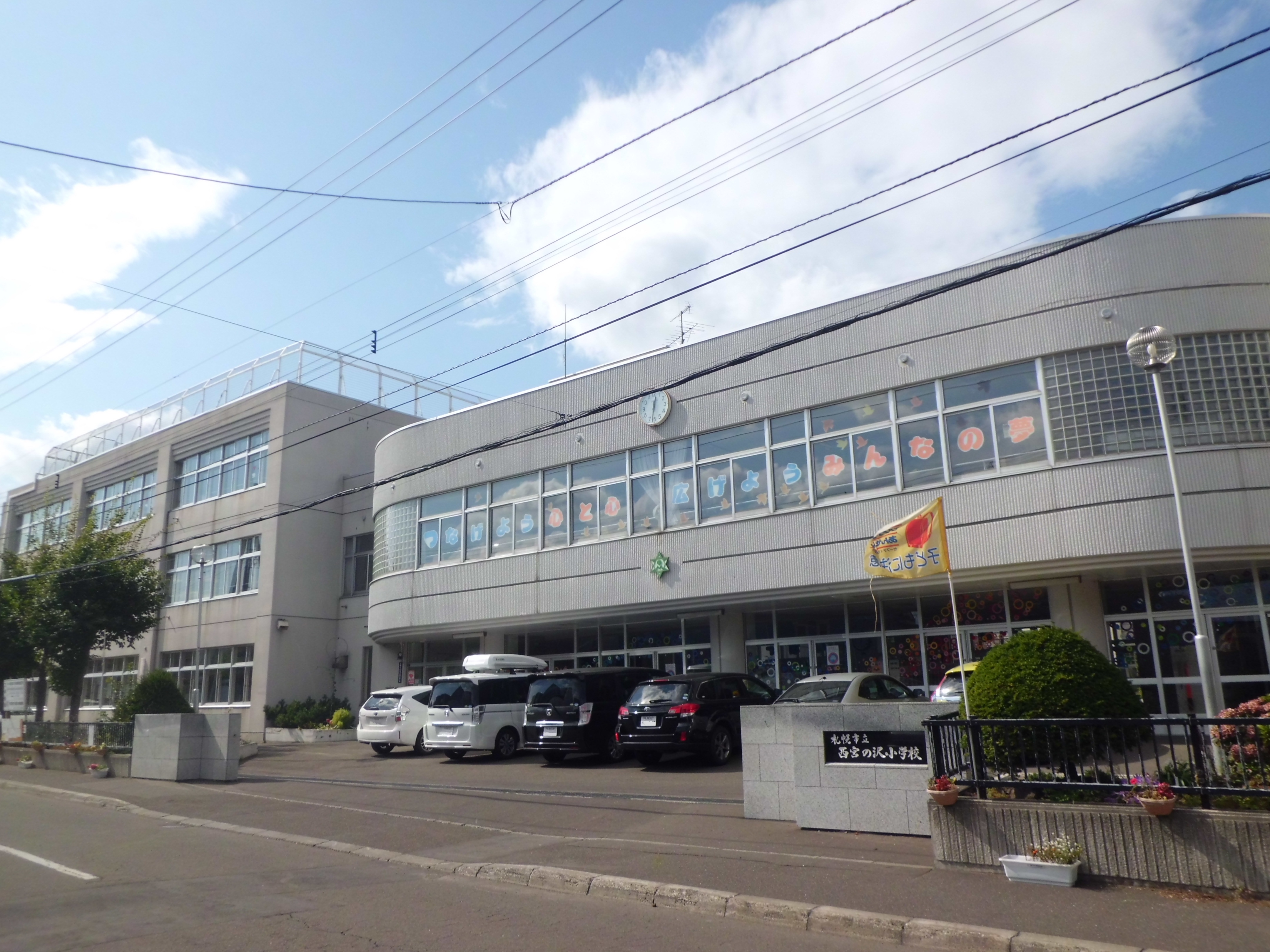 Sapporo City Nishimiyanosawa Elementary School